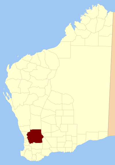 Location of the Avon district in Western Australia, part of the Cadastral divisions of Western Australia